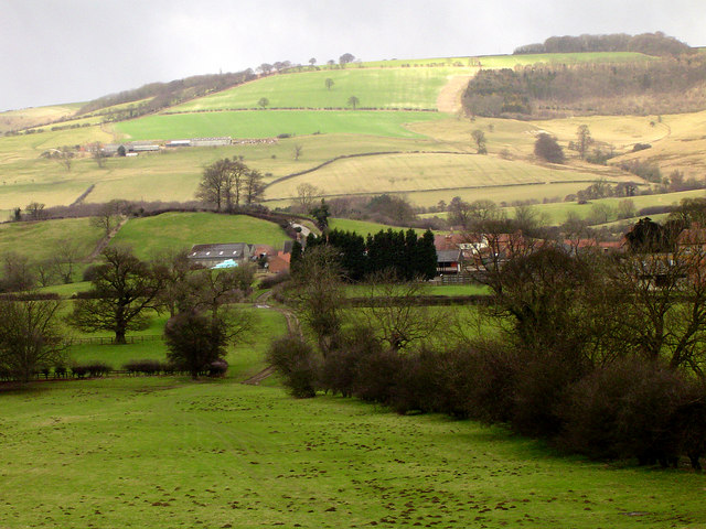 Wold Views. The view from Hardy Field towards Kirby Underdale, East Riding of Yorkshire, England, and Acklam Wold.More on Kirby Underdale and a walk around the area can be found by following the link.